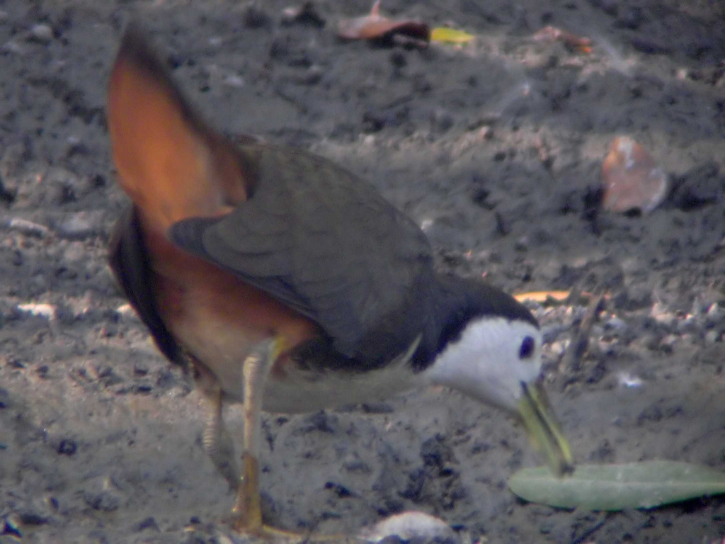 Amaurornis_phoenicurus1